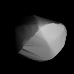 3D convex shape model of 1218 Aster, computed using light curve inversion techniques. J. Hanuš, J. Ďurech, M. Brož, B. D. Warner (June 2011). "A study of asteroid pole-latitude distribution based on an extended set of shape models derived by the lightcurve inversion method". Astronomy and Astrophysics 530: A134. ISSN 0004-6361. arXiv